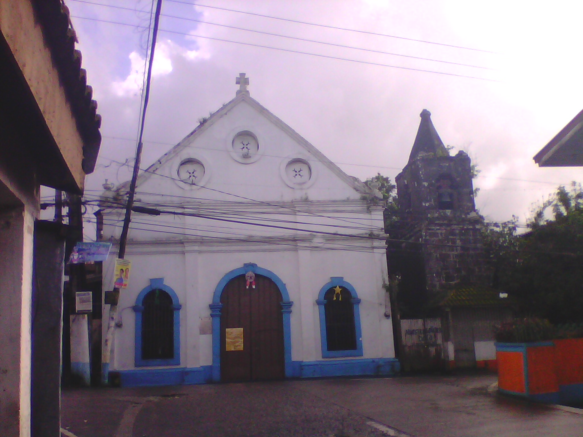 Ermita Chapel of Saint Gregory the Great Parish Church of Majayjay Dedicated to th Nuestra Senora de la Porteria